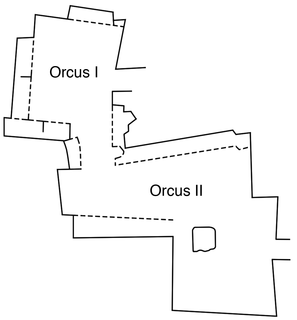 A blueprint of the Tomb of Orcus.